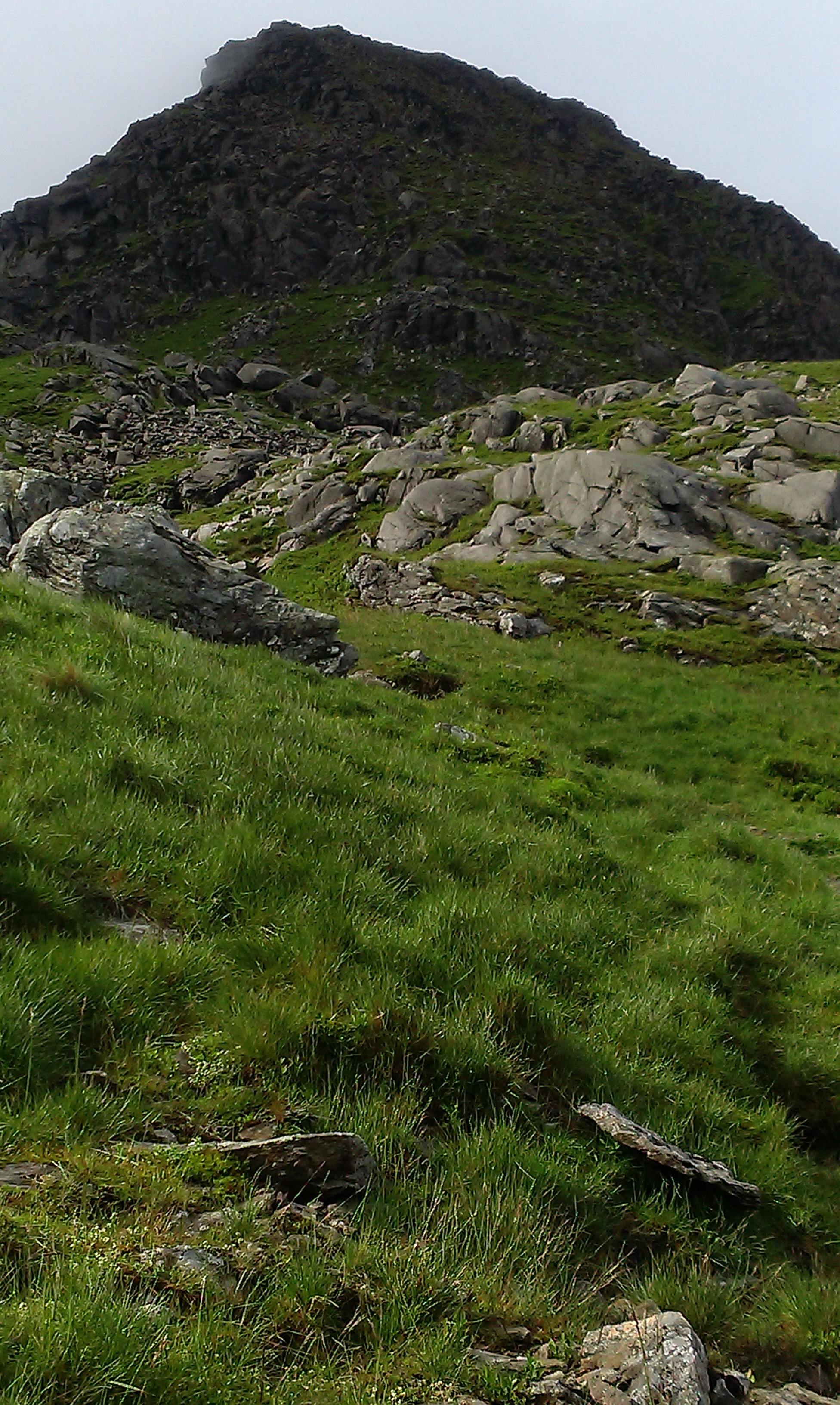 The so called Creag Chasain (the north face of Stuc a Chroin).